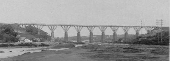 The original timber Carnon Viaduct near Perranwell station on the Falmouth branch in Cornwall.